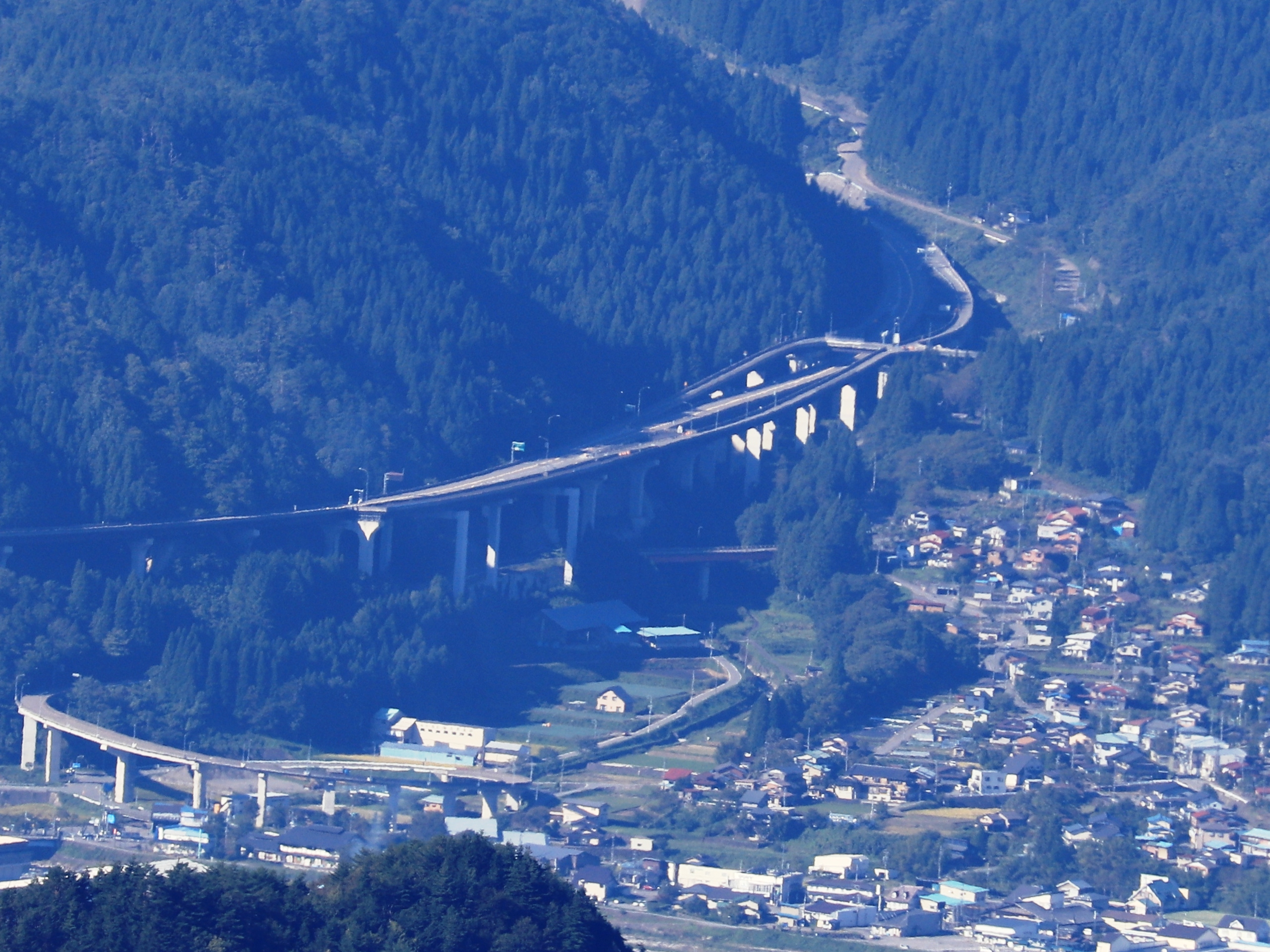 Shirotori-nishi Interchange on Aburasakatoge Road (Chubu-Jukan Expressway) and Route 158 seen from Mount Washi (Hida Highland) in Gujo, Gifu Prefecture, Japan.